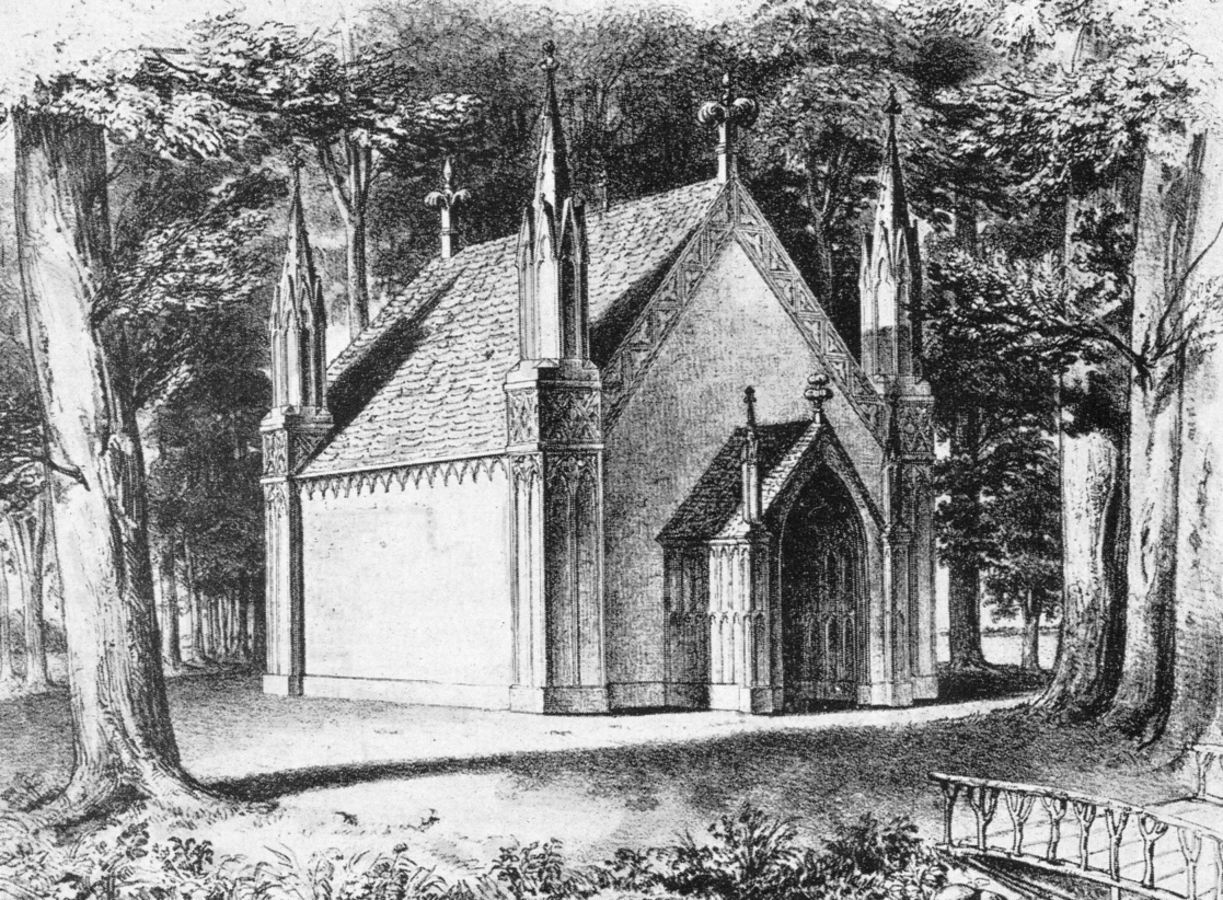 Before deconstruction and thievering till the 1950s